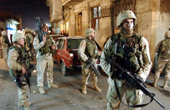 Soldiers assigned to Scout Platoon, Headquarters and Headquarters Company, 1st Battalion, 36th Infantry Regiment, 1st Armored Division, wait to begin a cordon and search of a Baghdad area hostile to coalition forces as part of Operation Iron Hammer.